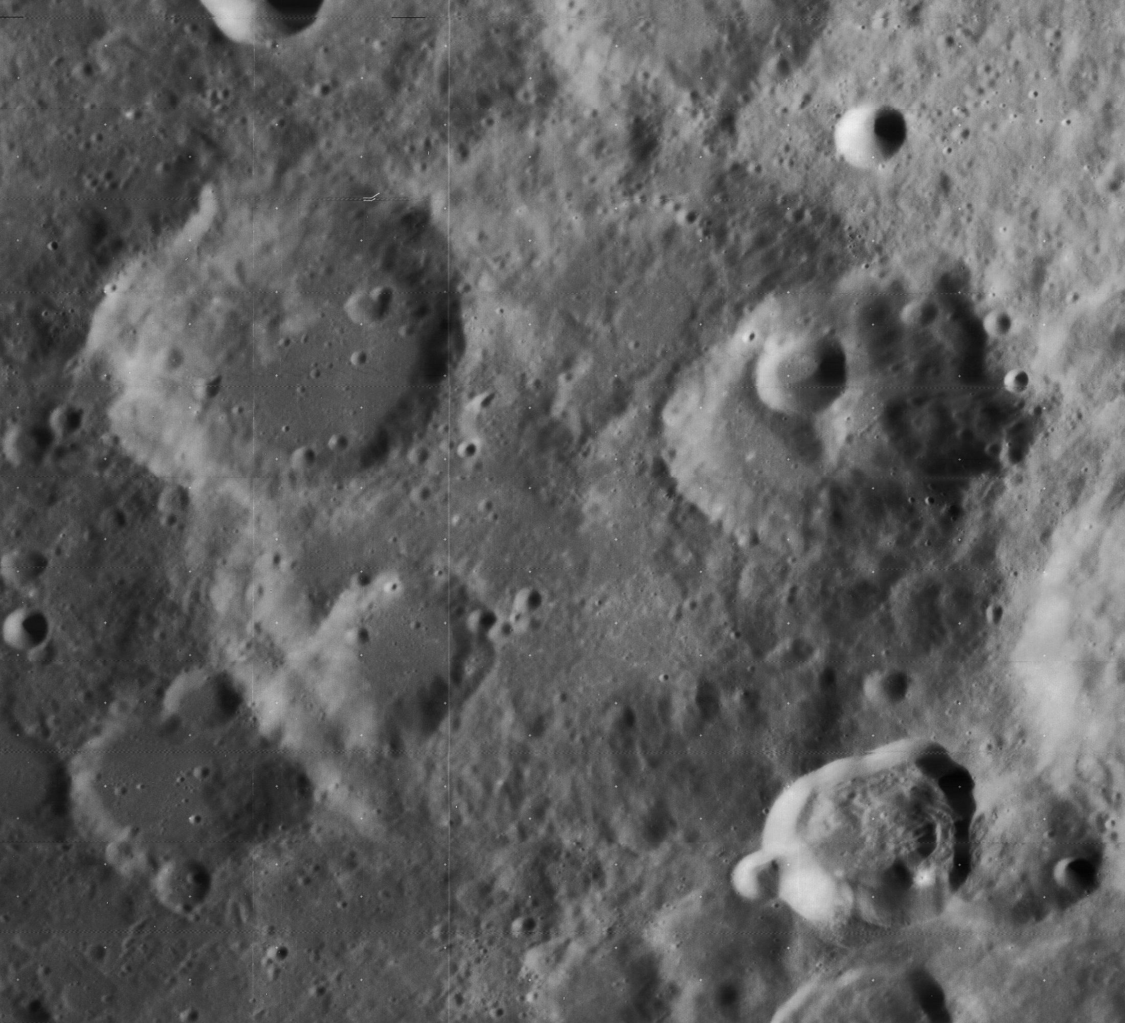 Hommel crater, on the moon. Banding on original has been partially removed.